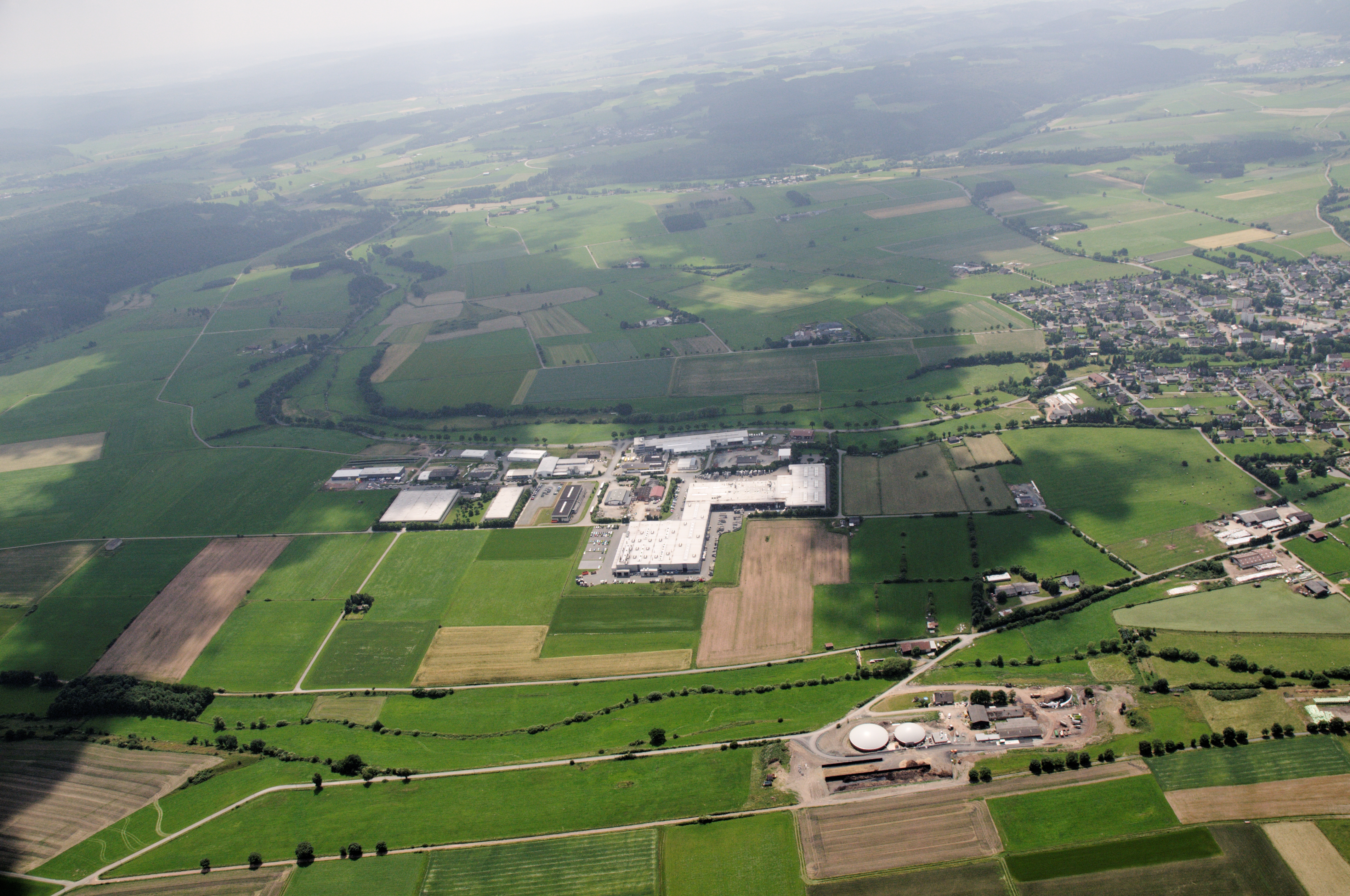 Fotoflug Sauerland-Ost, Medebach, Gewerbegebiet „Holtischer Weg“, Bäche Medebach und Harbecke The making of this document was supported by the Community-Budget of Wikimedia Germany.